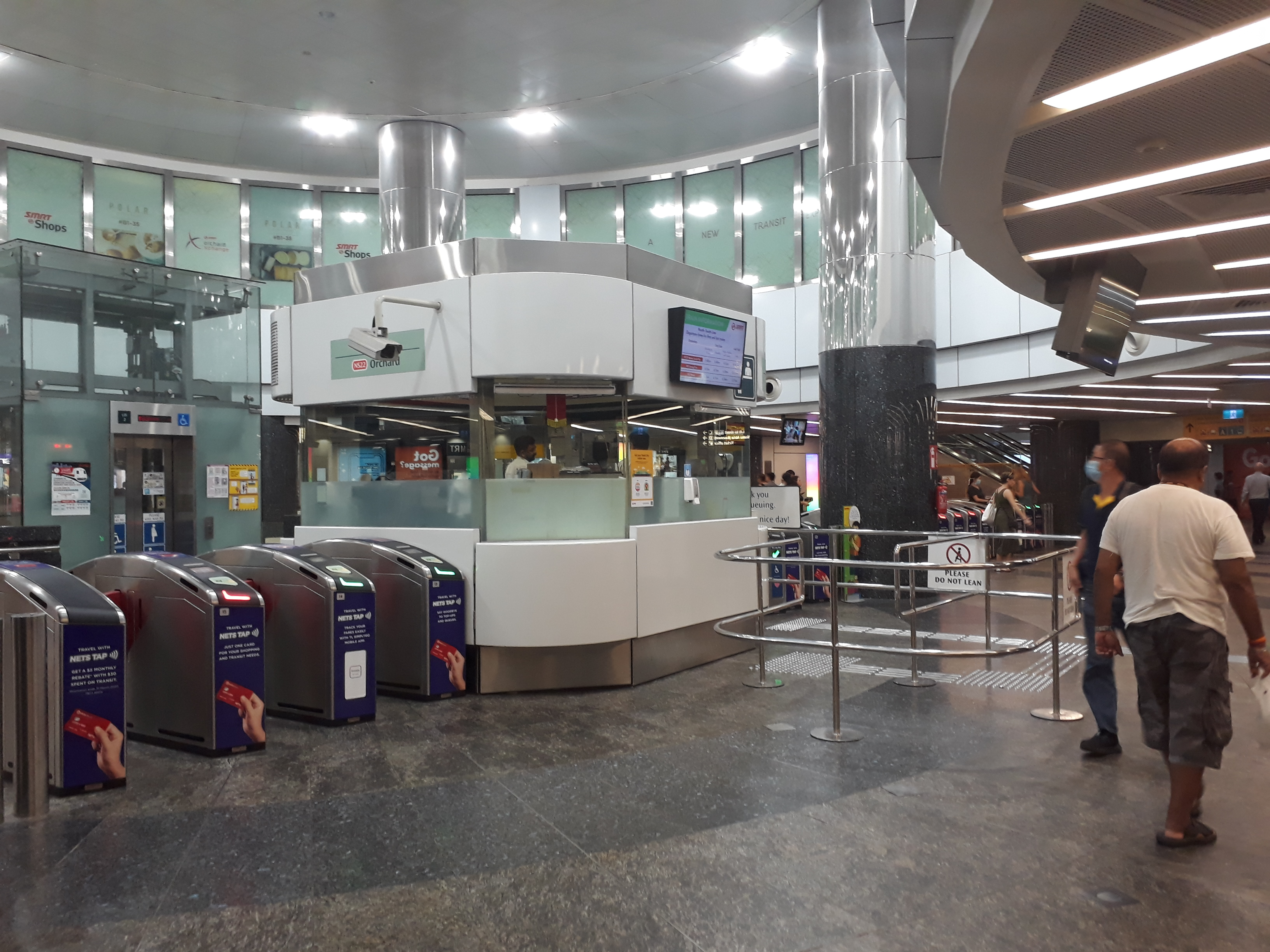 Concourse level of Orchard station